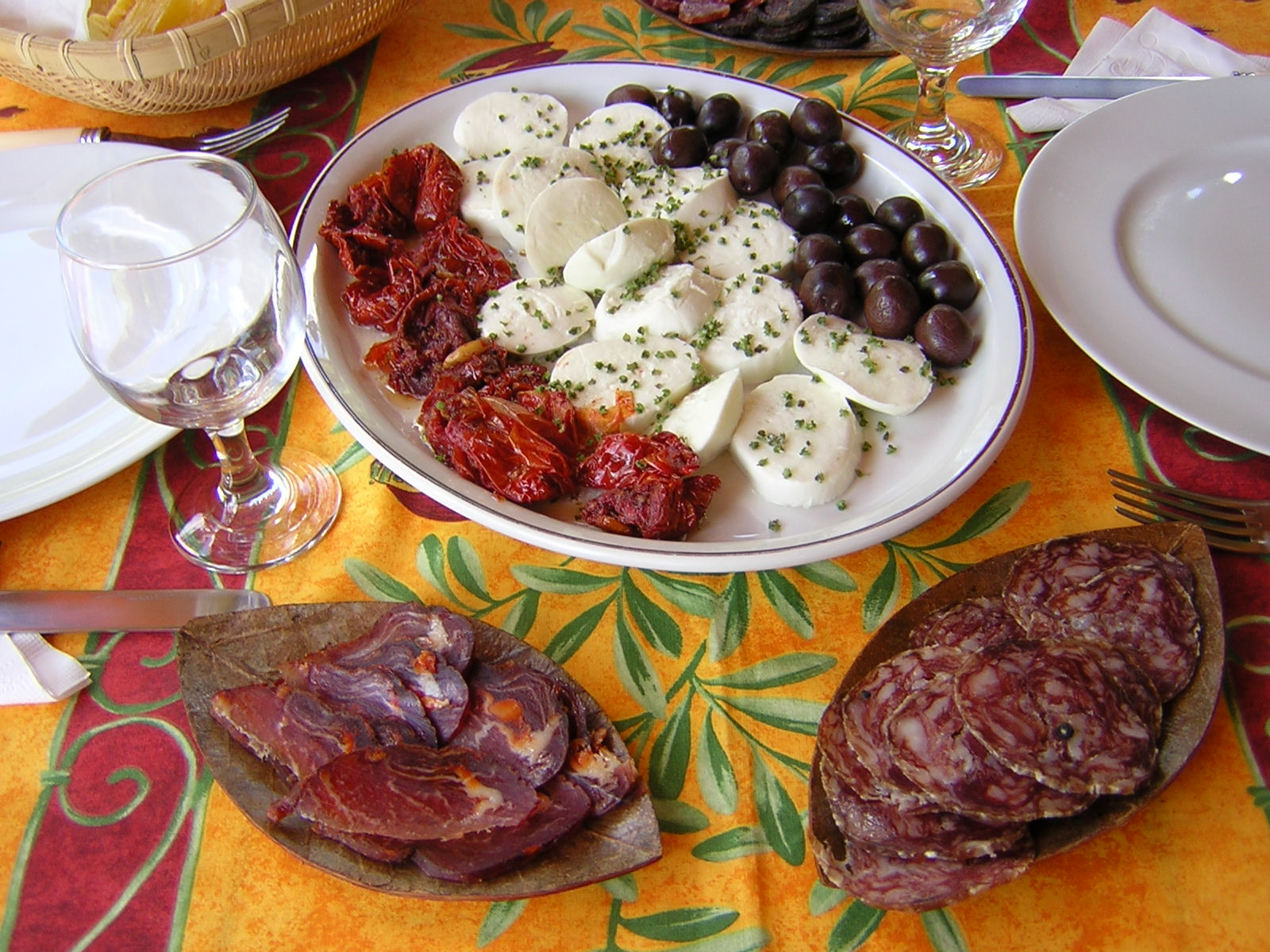 Hors d'œuvre also known as appetizers, are food items served before the main courses of a meal. Here you have mozzarella cheese sprinkled with basilic flowers, black Greek olives, sun-dried tomatoes, Italian salami and Spanish Serrano jamon.